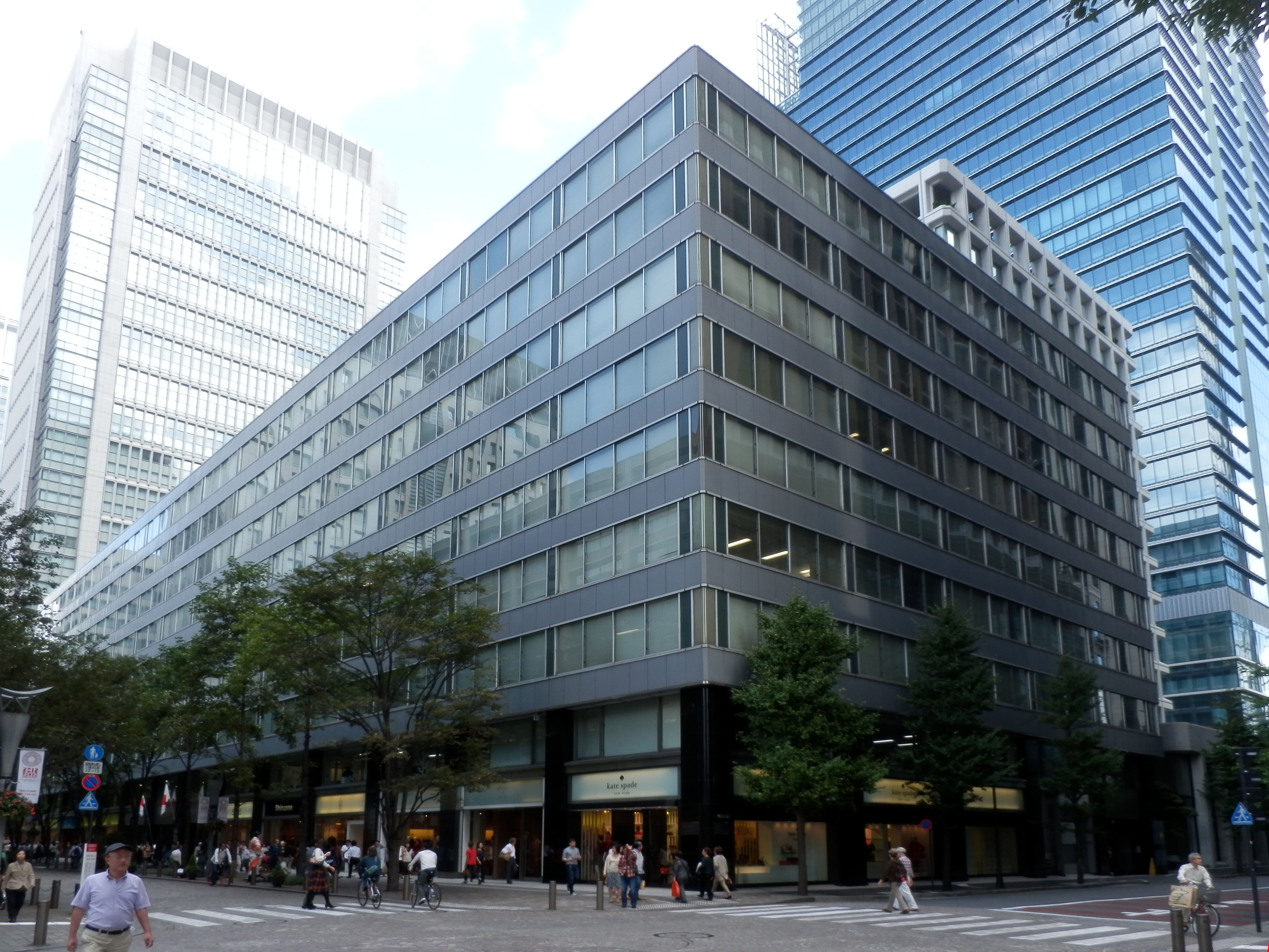 Marunouchi 2chome Building (Office building in Tokyo, Japan)